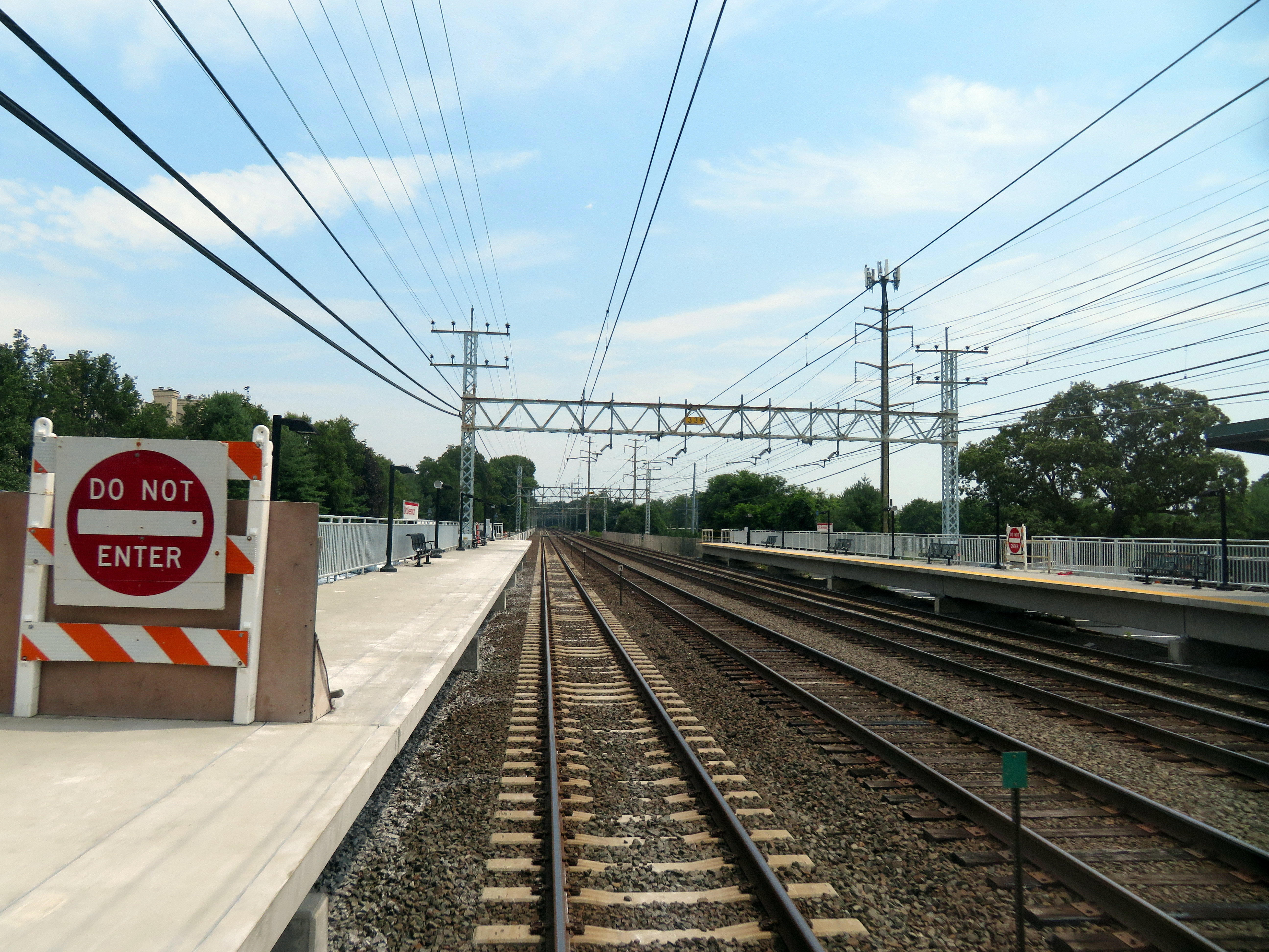 Platform extension construction at Old Greenwich station viewed from the rear of a Grand Central-bound New Haven Line train in July 2019